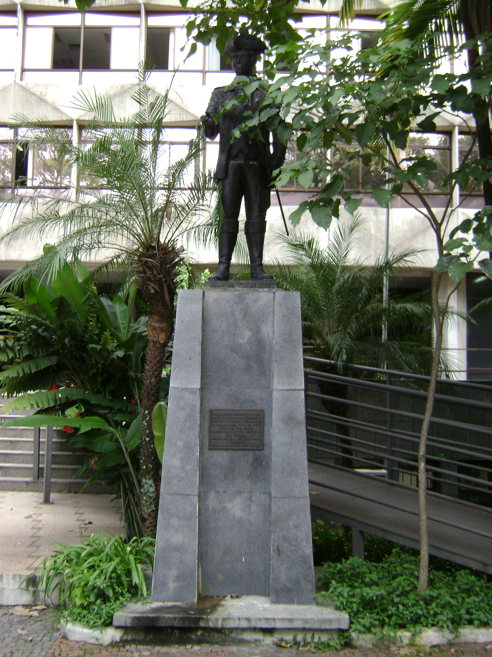 Statue of Tiradentes in José Mendes Júnior square, in Belo Horizonte, Brazil.